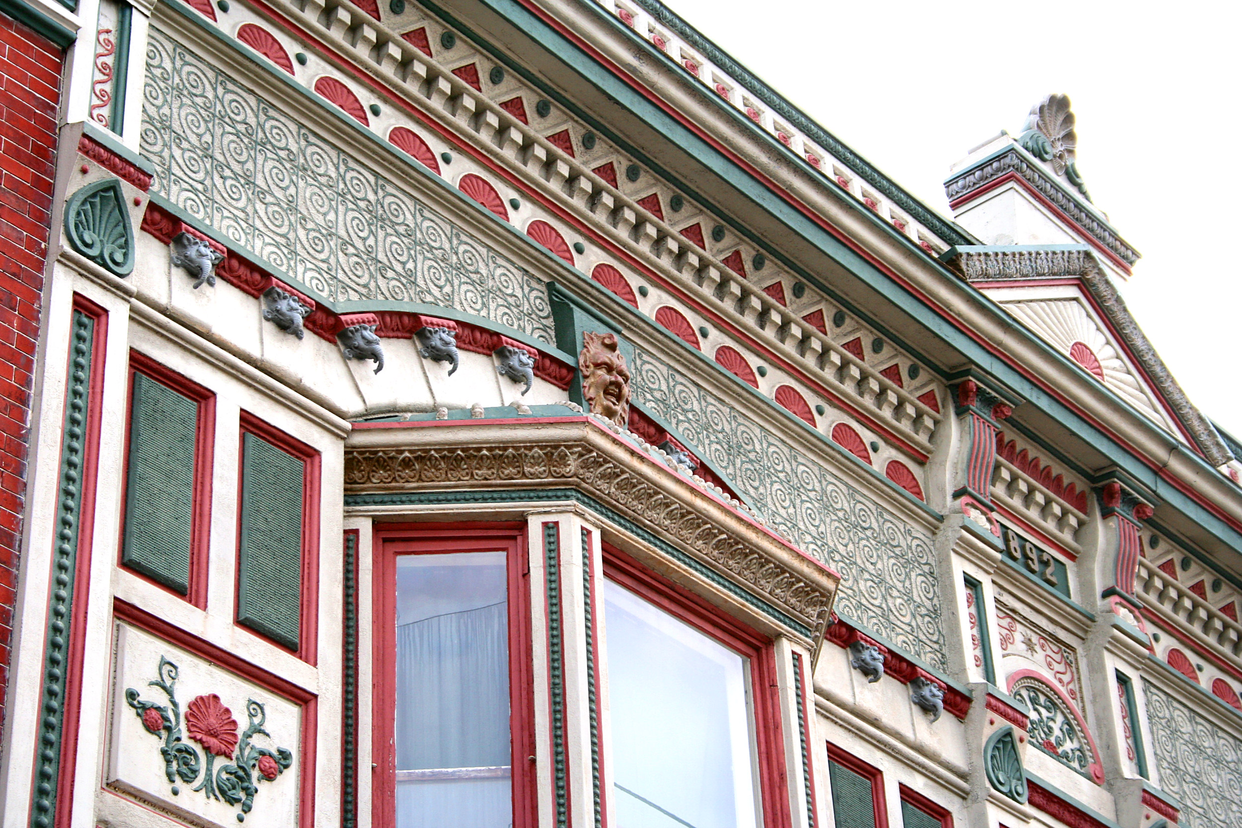 Detail of Victorian-era architecture in downtown Kendallville, Indiana. Photo shot by Derek Jensen (Tysto), 2005-October-17